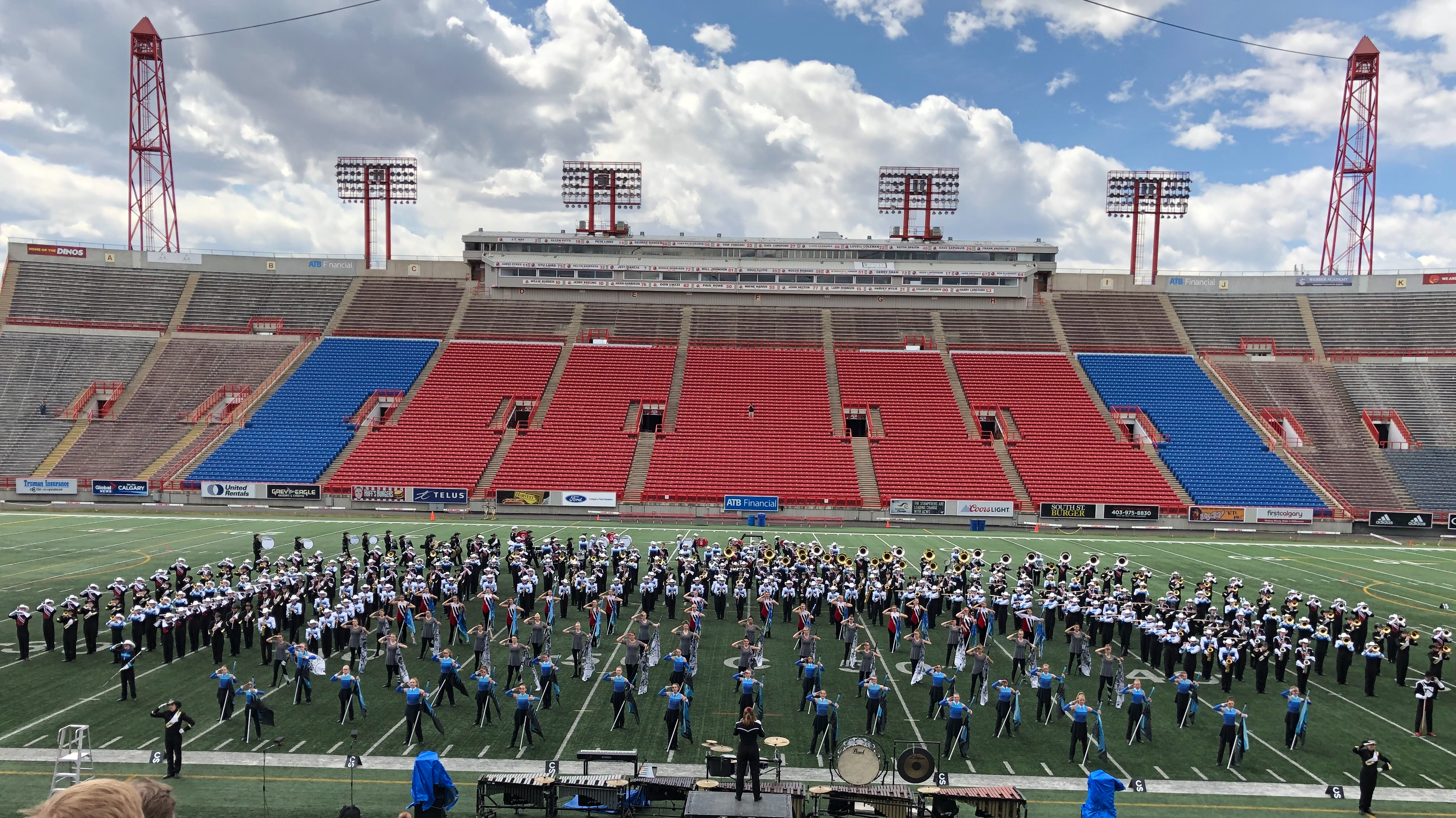 The bands of calgary mass band performing at music n motion